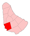 Map of Barbados showing the parish of Saint Michael.